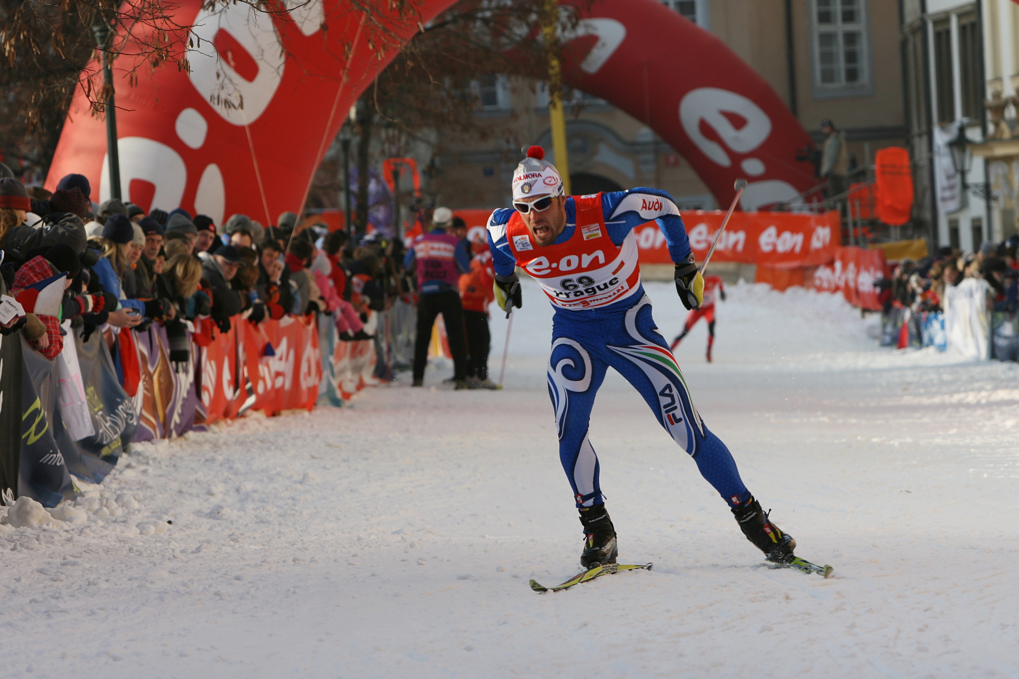 Renato Pasini in the qualification of Tour de Ski in Prague